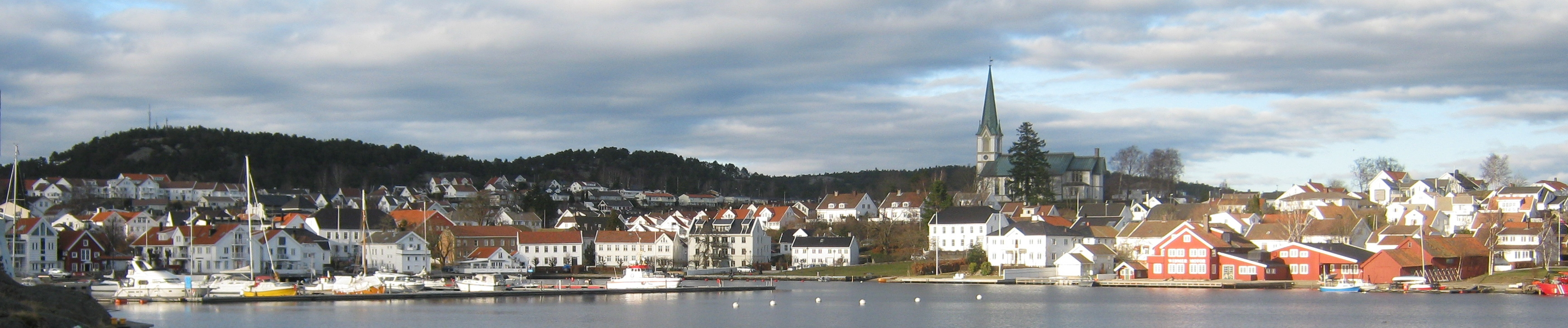 Waterfront in Lillesand, Norway